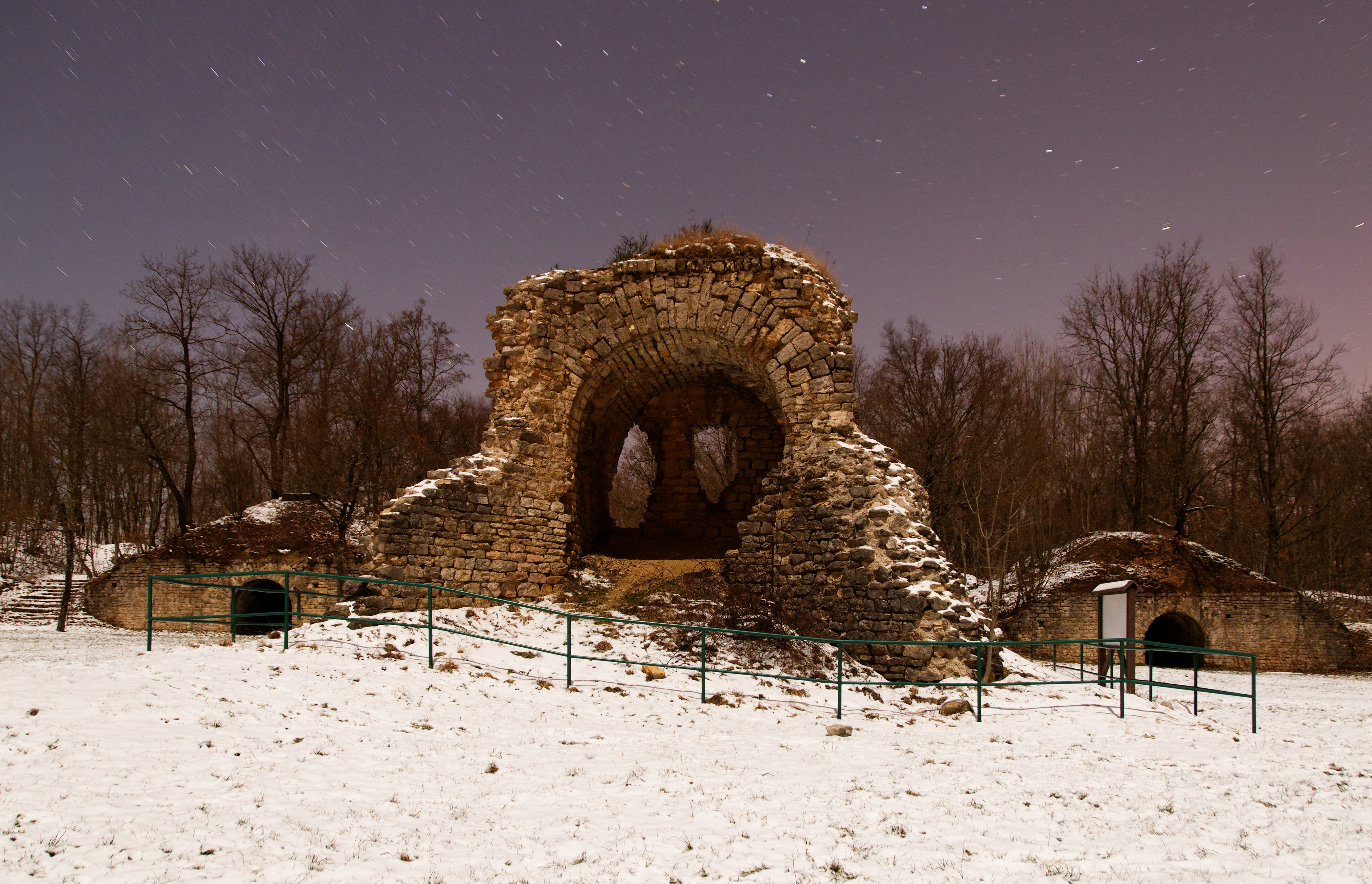 Poste optique under snow near the fort du Salbert (under moonlight), at Belfort, France.